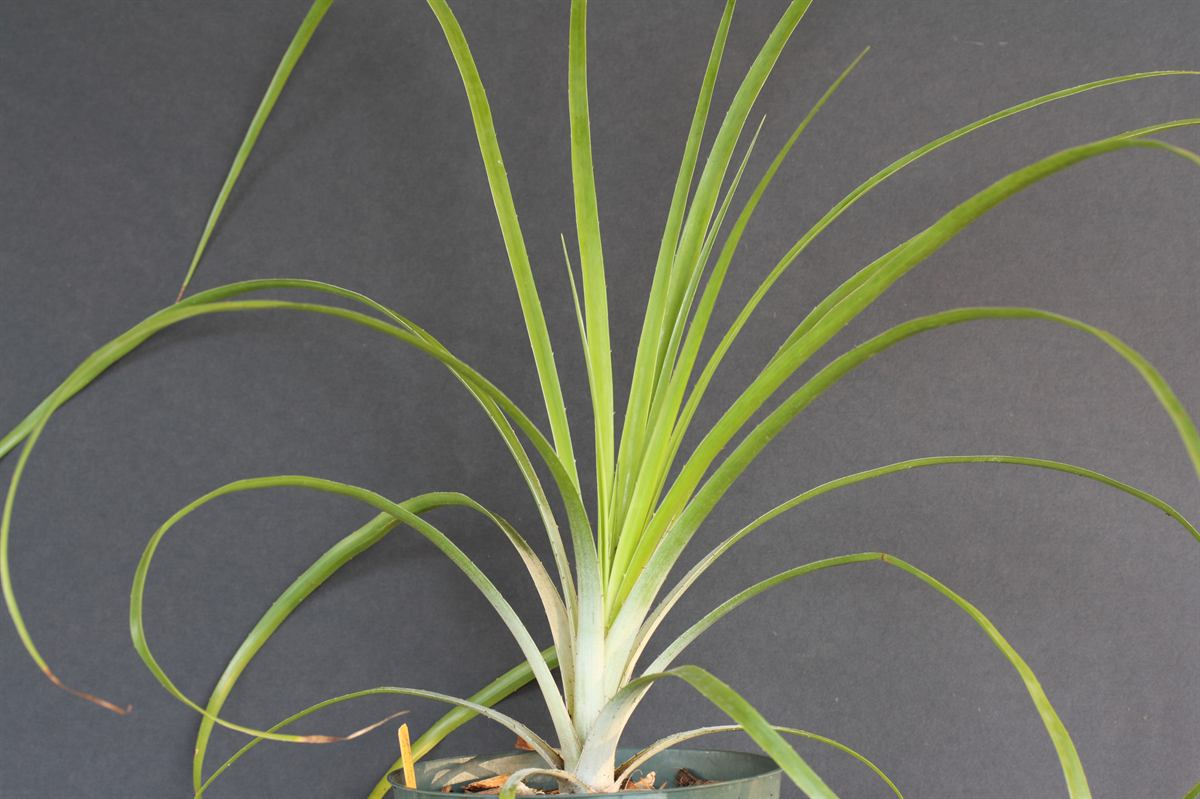 19 month old seedling.